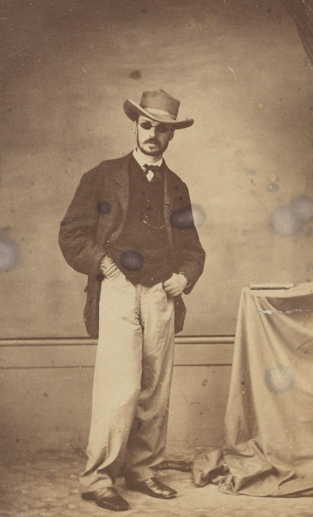 "William James in Brazil after the attack of small-pox": portrait photograph, 1865. MS Am 1092 (1185), Houghton Library, Harvard University